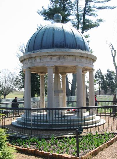 Tomb of Andrew and Rachel Jackson in the garden of The Hermitage. Photograph by J. Williams (Mar 18, 2004).